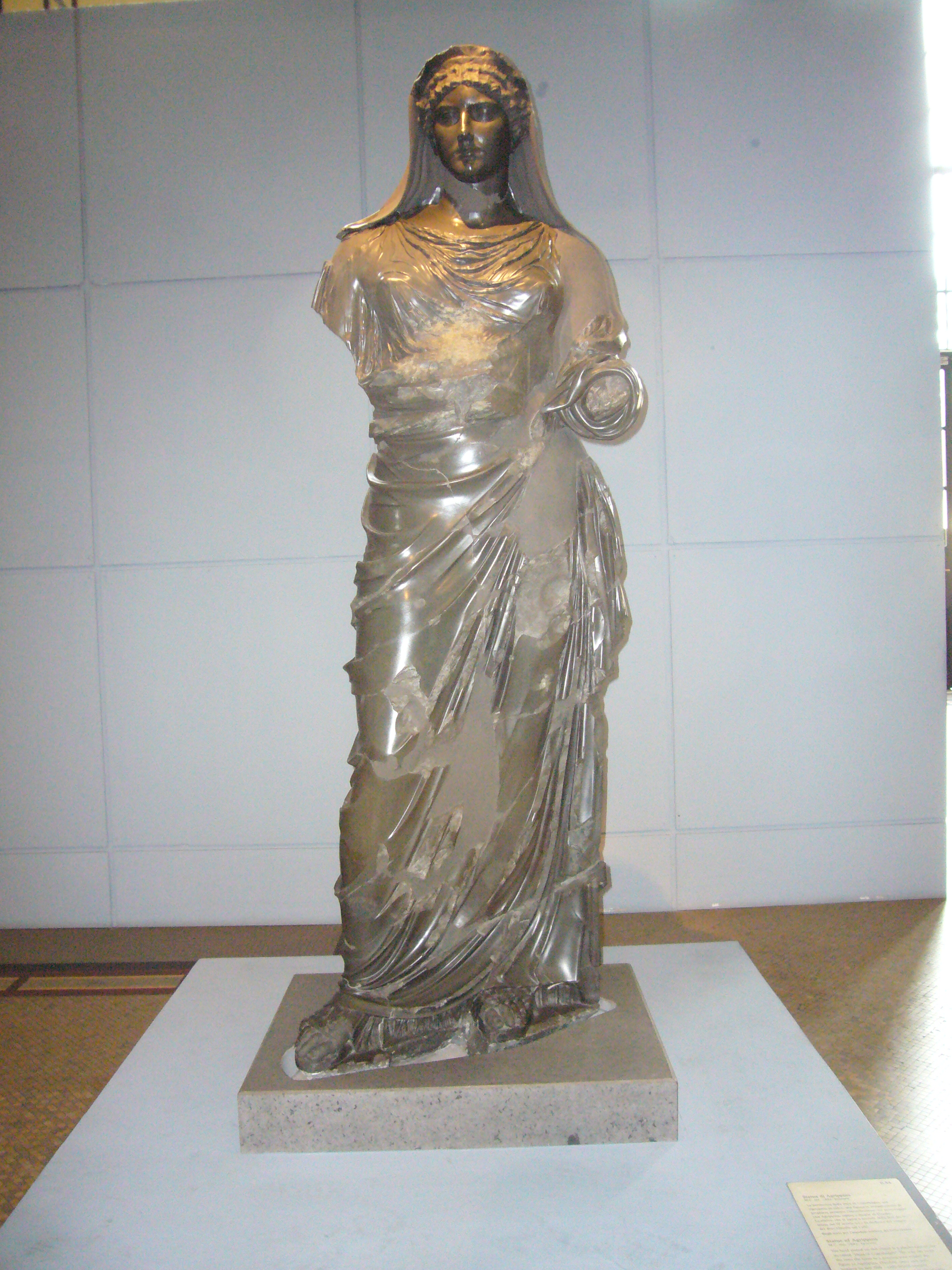 Basanite statue of Agrippina Minor as Orante (discoverd during the escavations in 1885 of the military hospital that was build over the villa Casali).